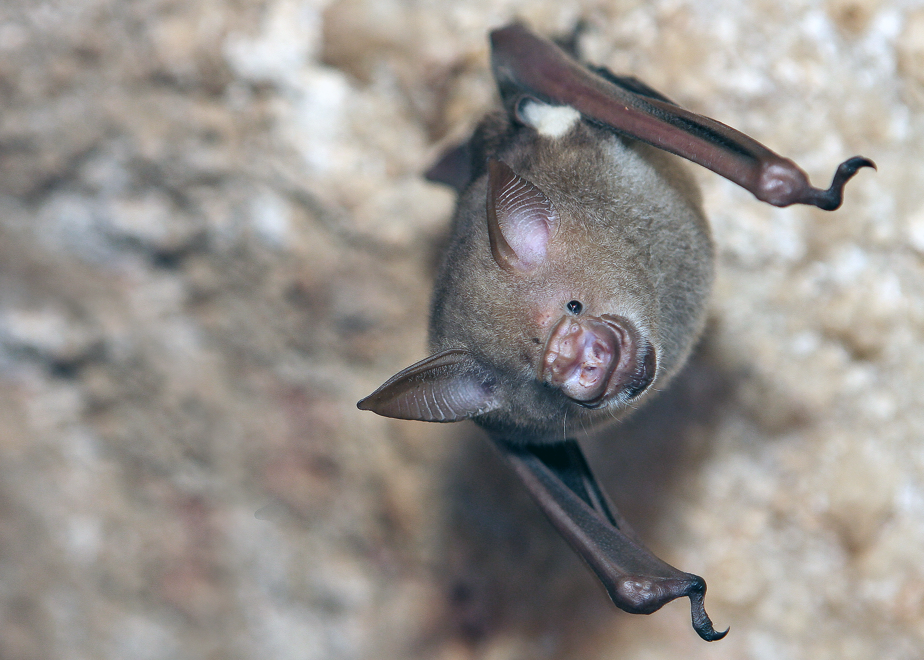 Commerson's roundleaf bat, Hipposideros commersoni I snapped this near the grounds of the Anjajavy l'Hotel. Analalava, Mahajanga, Madagascar